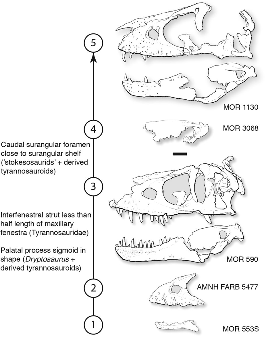 Unambiguously optimized derived phylogenetic characters were recovered as synontomorphies at two of the five growth stages, which are labeled at the corresponding numbers. Scale bar equals 10 cm. Abbreviations: AMNH FARB, American Museum of Natural History, Fossil Amphibians, Reptiles, and Birds; MOR, Museum of the Rockies.